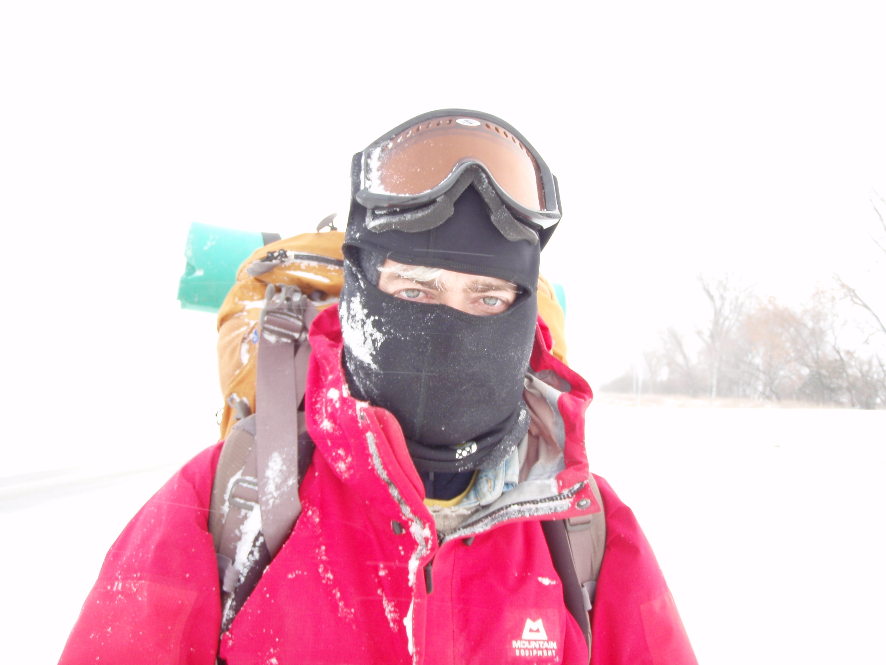 Colin Skinner during a snowstorm in North Dakota in 2009